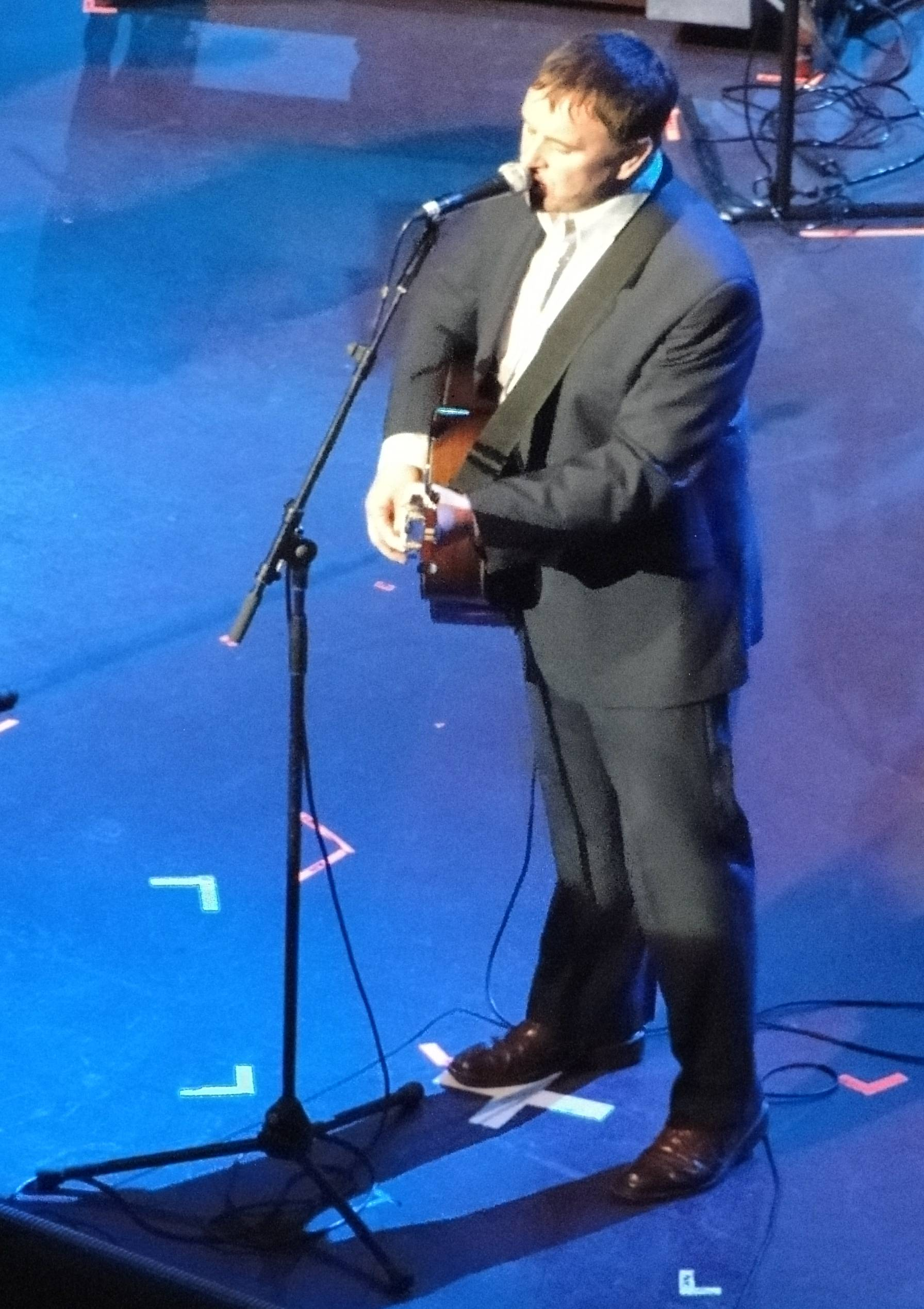 Chris Difford appearing at London's Royal Albert Hall, October 2009.